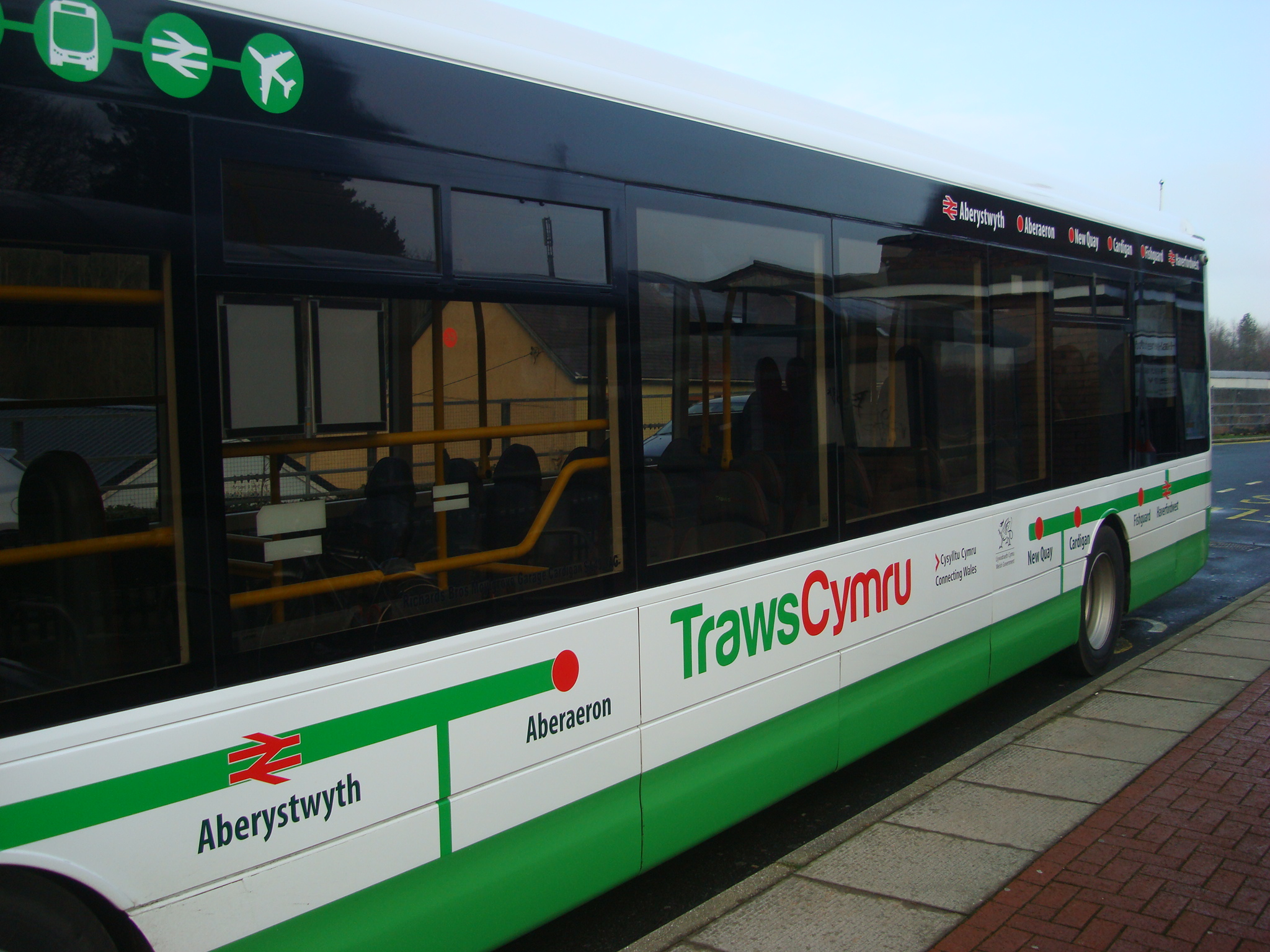 Close-up of the TrawsCymru 'dot-to-dot' style livery for the T5 service. The vehicle is Optare Tempo X1260 YJ55BKF